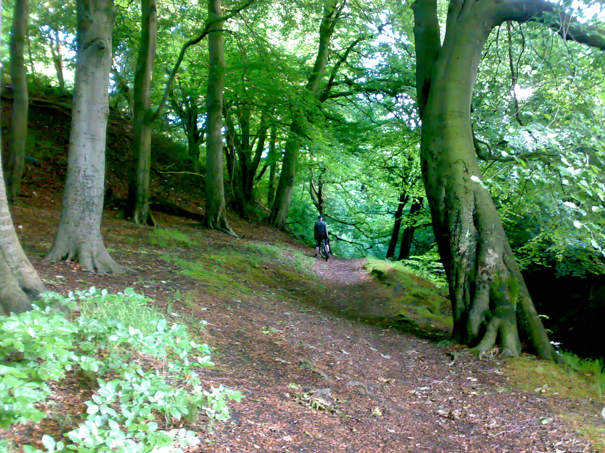 The trail down to Prestwich Clough. This can be accessed by walking behind the petrol station on junction 17 of the M60 motorway.